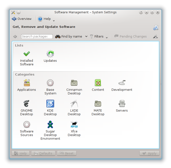 SoftwareManaged on KDE Spin in Fedora 19